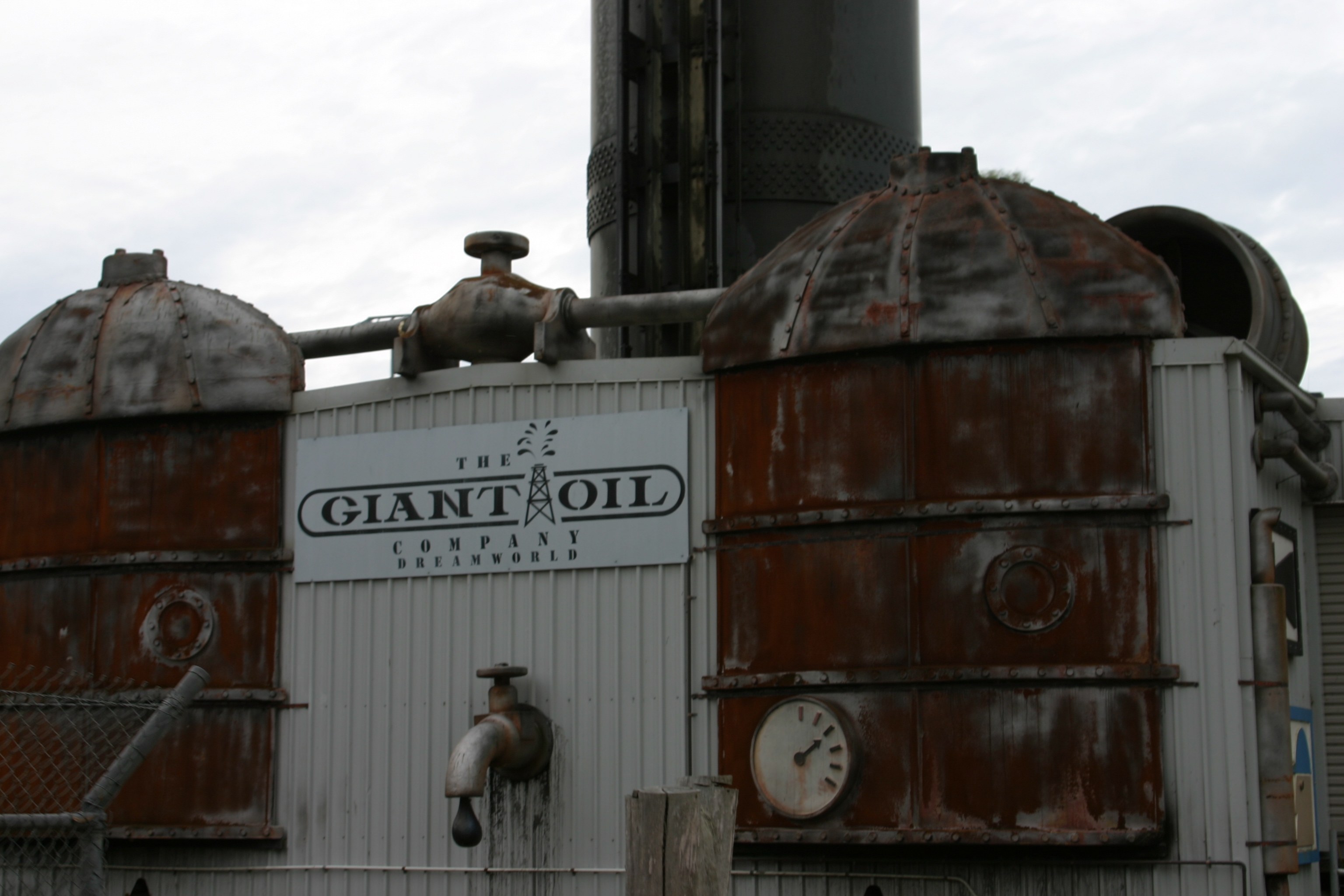 The Giant Oil Company themeing at the base of the Giant Drop at Dreamworld.